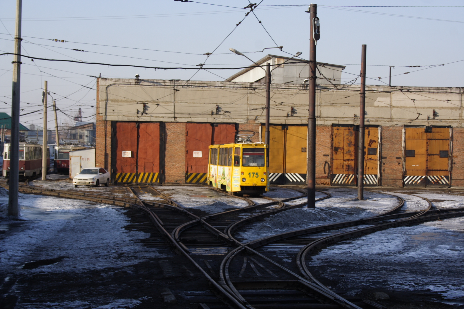 Tram depot in Biysk